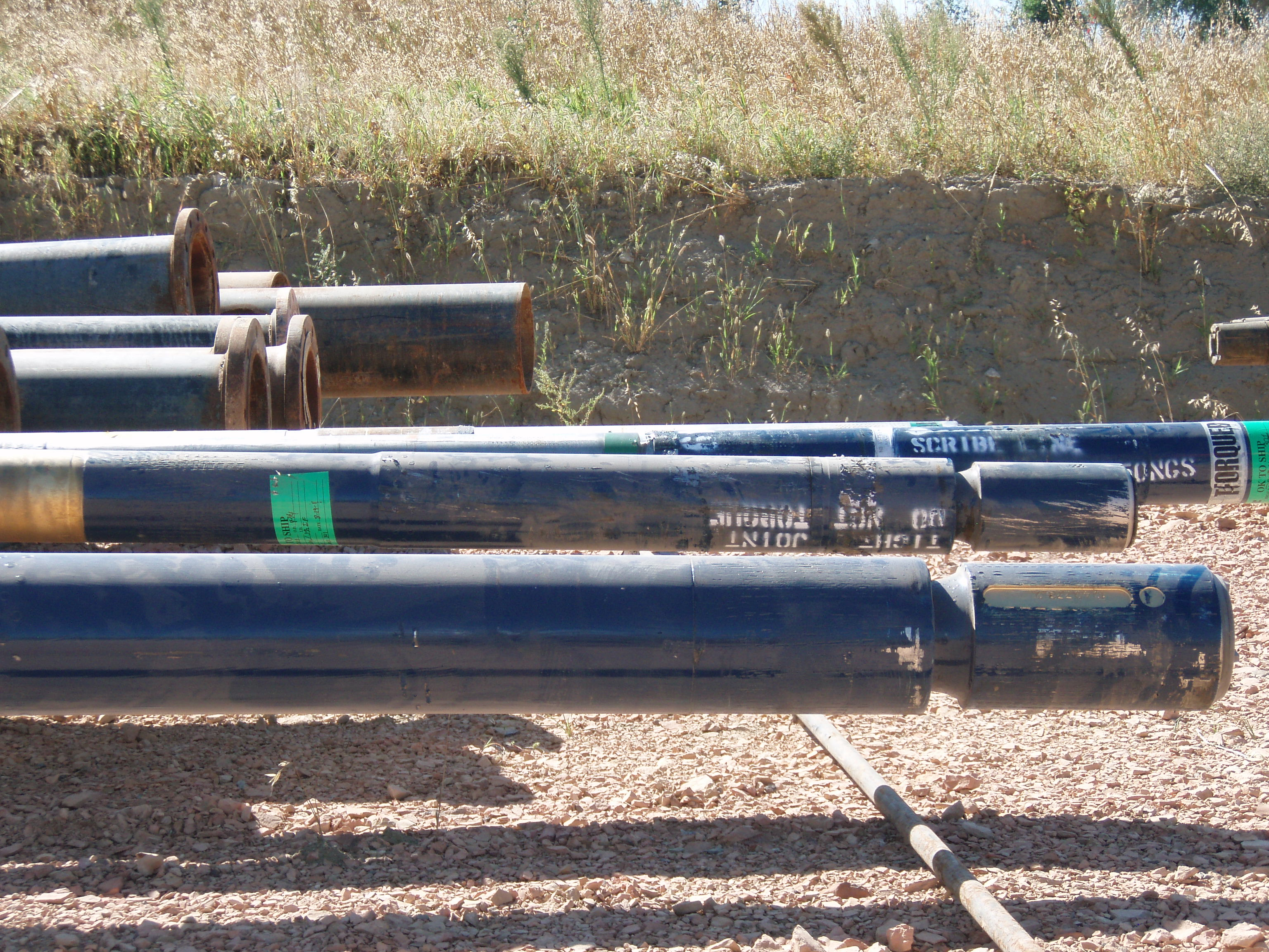 Mud Moter & Measurement while drilling - MWD